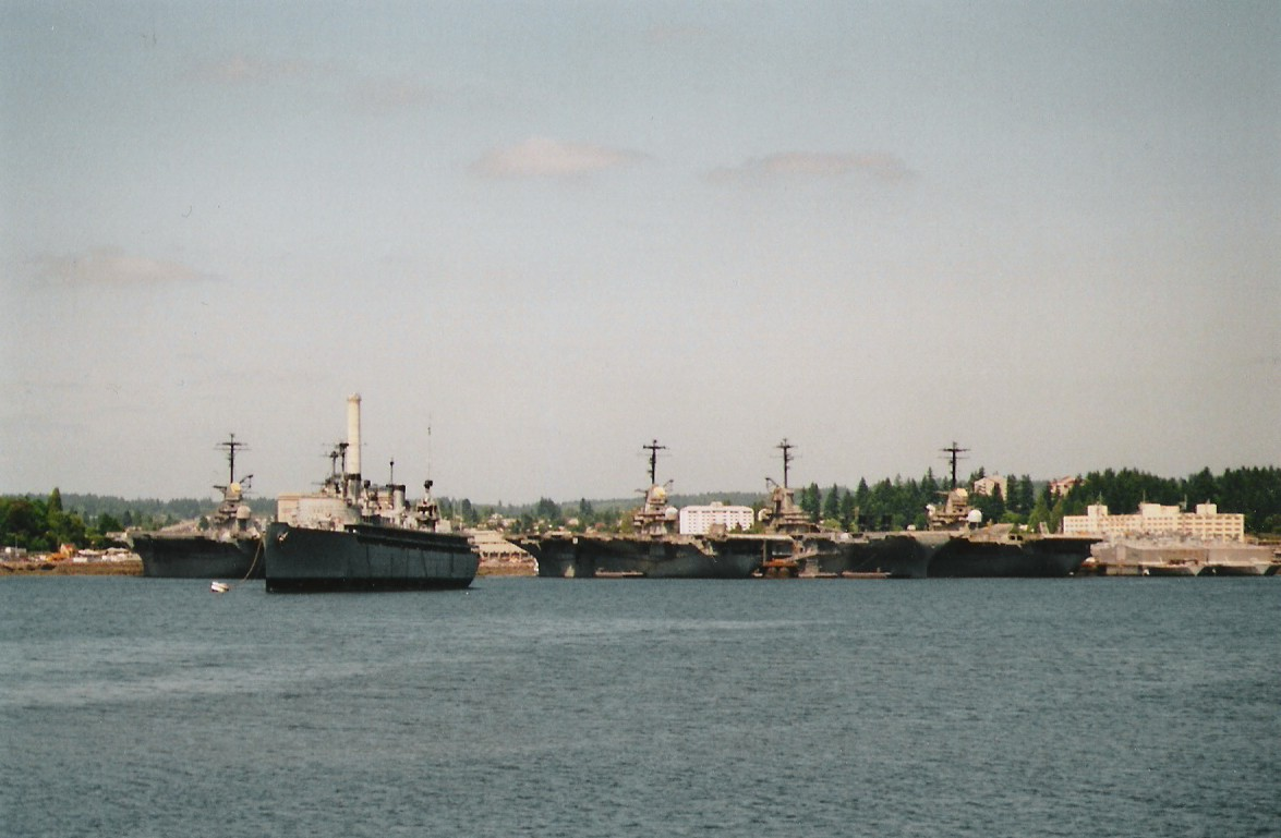 Four decomissioned Essex-class aircraft carriers and the repair ship USS Ajax (AR-6) at Bremerton, Washington (USA), in June 1989. The carriers were (l-r): USS Hornet (CVS-12), USS Oriskany (CV-34), USS Bon Homme Richard (CVA-31), and USS Bennington (CVS-20). Hidden behind Ajax is the guided missile cruiser USS Chicago (CG-11).